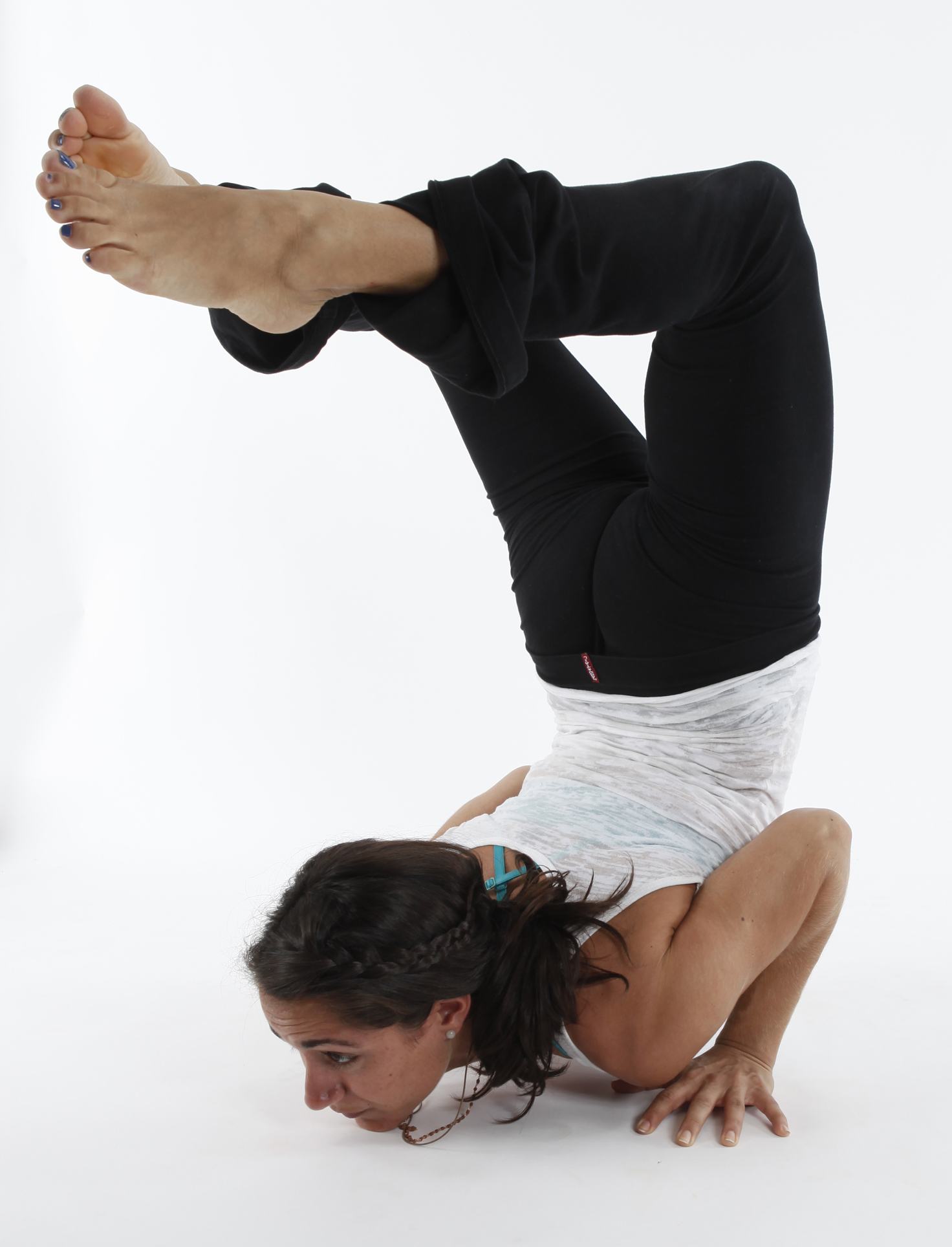 "Scorpion Hand Balance Pose". In terms of hatha yoga, this is not Scorpion (Vrischikasana) but Ganda Bherundasana.